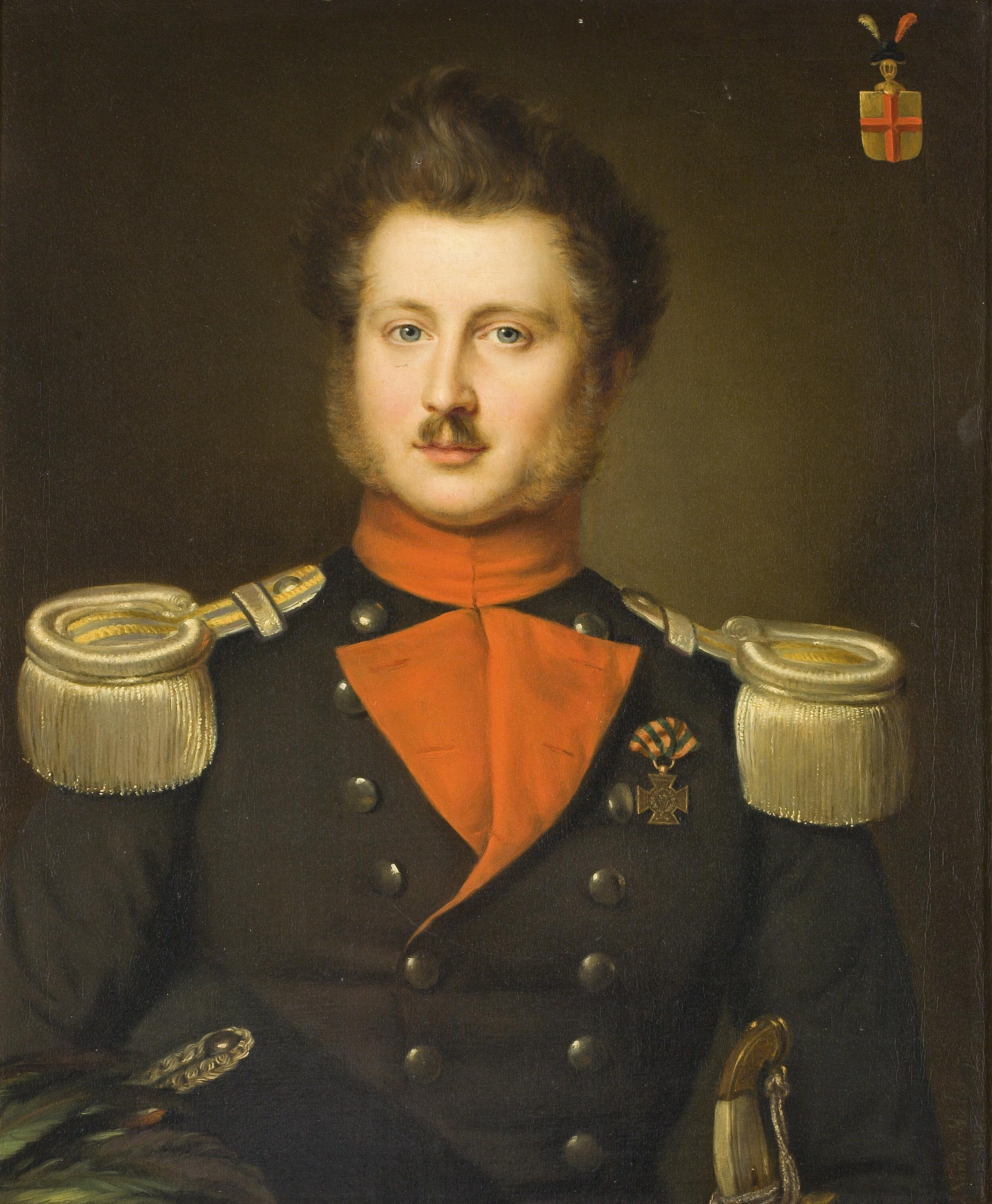 Jacob Derk Carel Baron van Heeckeren (1809-1875)